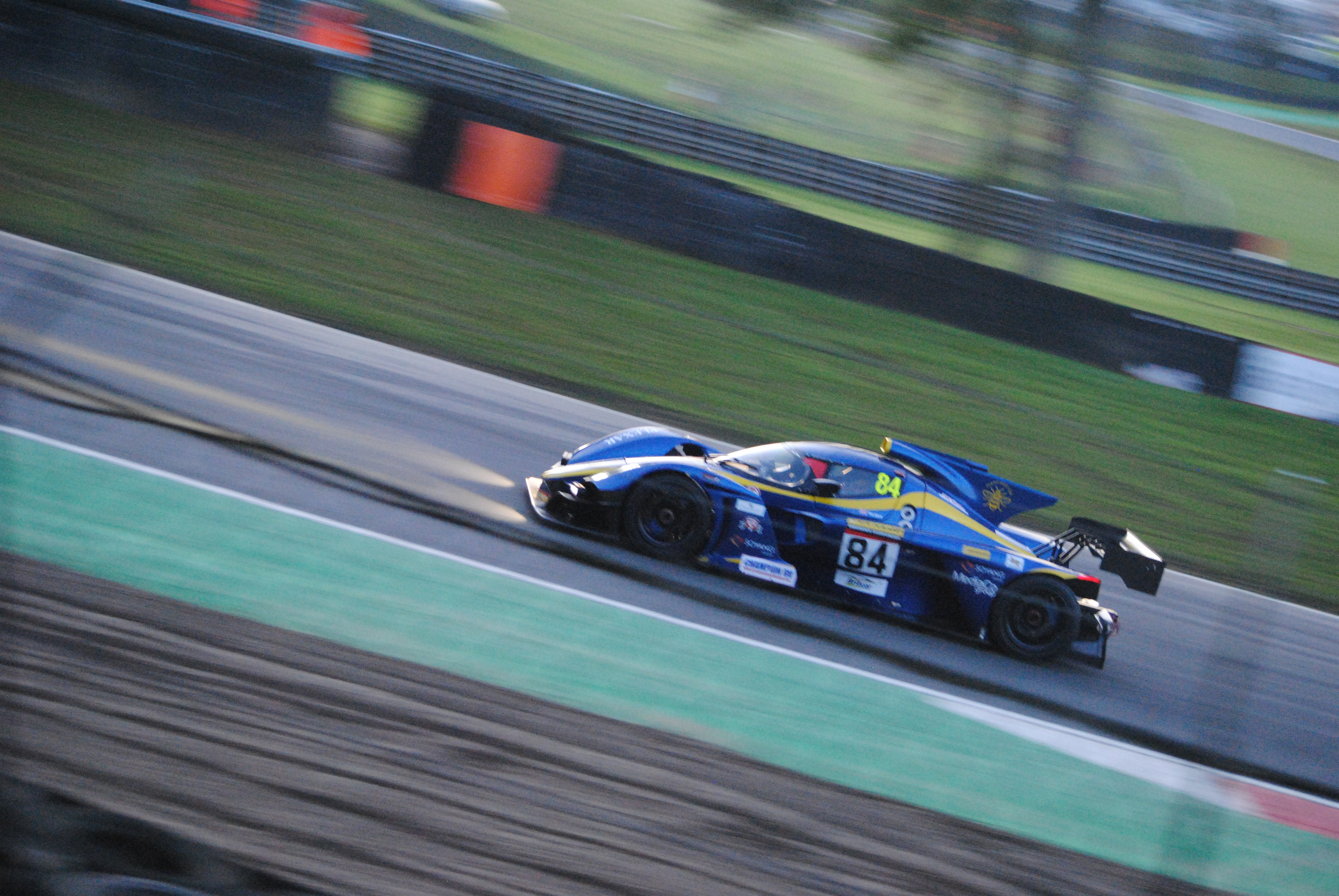 The Class 1-winning VR Motorsport Praga R1T, driven by Tim Gray to Class 1 victory in race two.